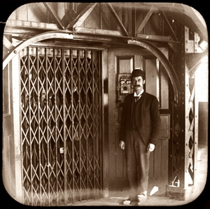 Blackpool Tower: Lift at 1895